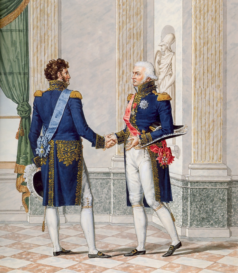 Part of a series chronicling the uniforms of Napoleon's Grande Armée.